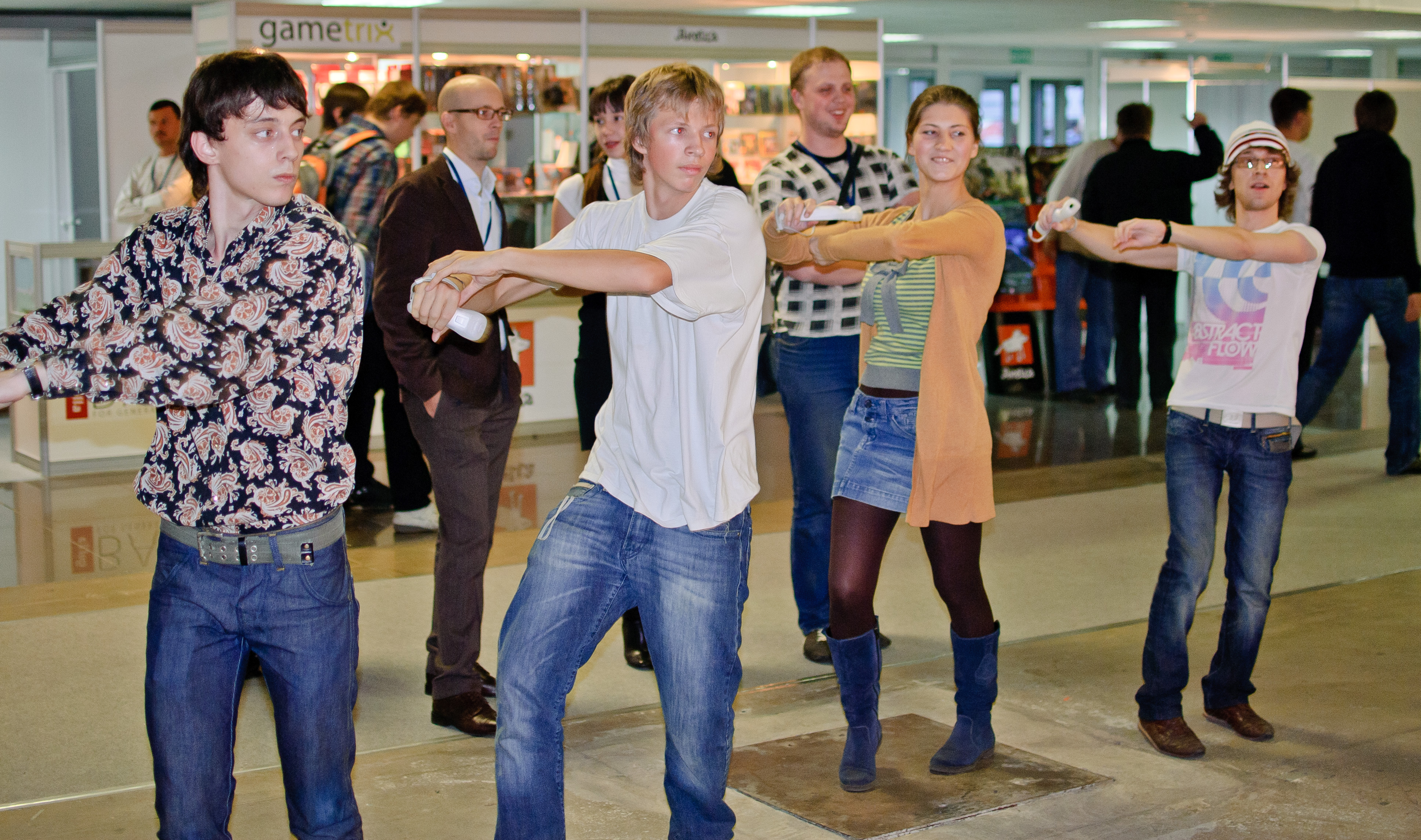 Just Dance 2 at Igromir 2010